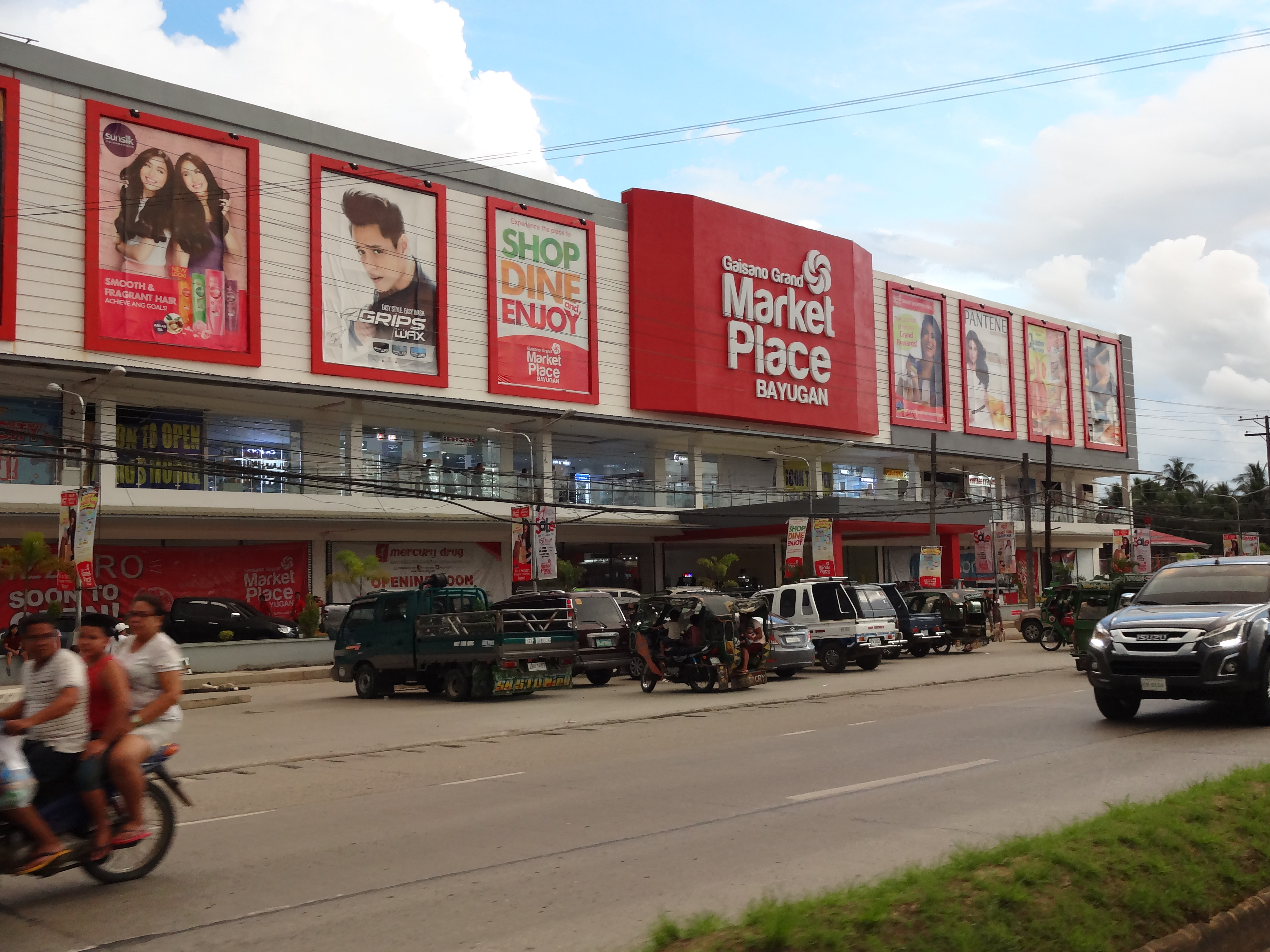 This is my own work. The Gaisano Grand Market Place Bayugan was opened in March 31, 2017.